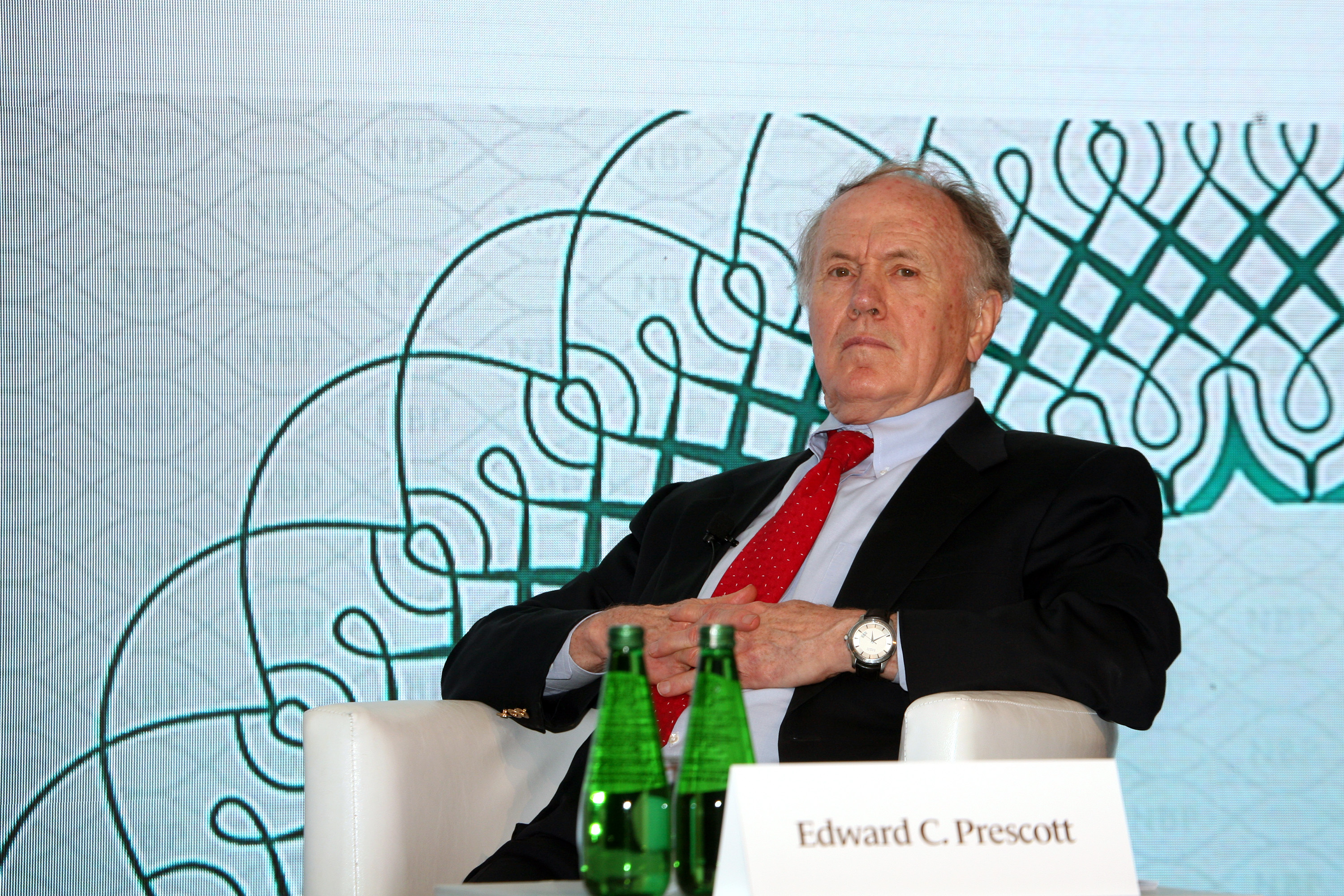 Wykład prof. Finna E. Kydlanda oraz prof. Edwarda C. Prescotta, The Poor Economic Performances in the EU and the US: Problems are Political, not Economic 24 czerwca 2015, Warszawa.